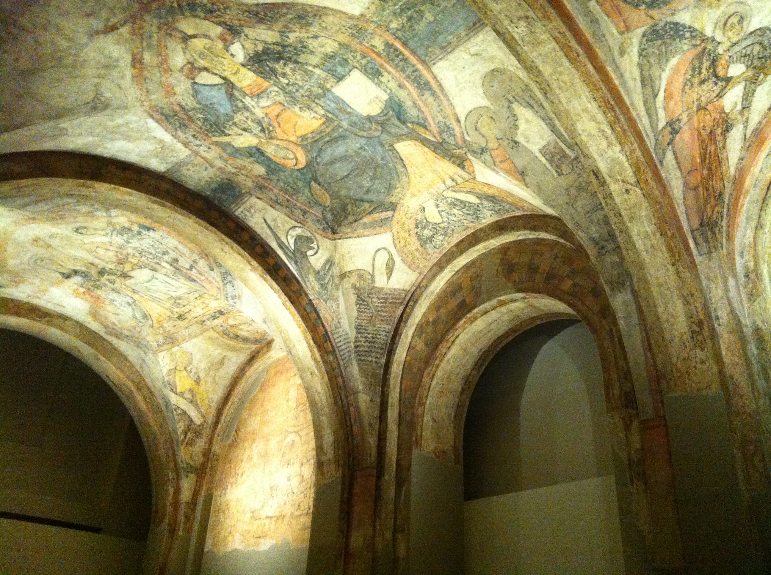 Reopening of the Romanesque collection of MNAC, Museu Nacional d'Art de Catalunya, in Barcelona